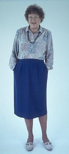 American cook, author, and television personality Julia Child (August 15, 1912 – August 13, 2004). depicted person: Julia Child (age: 76.17)